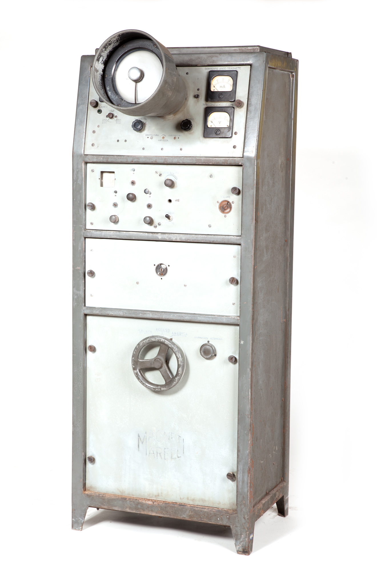 Radar visor "Folaga" by Magneti Marelli, about 1941. Museo nazionale scienza e tecnologia "Leonardo da Vinci", Milan.